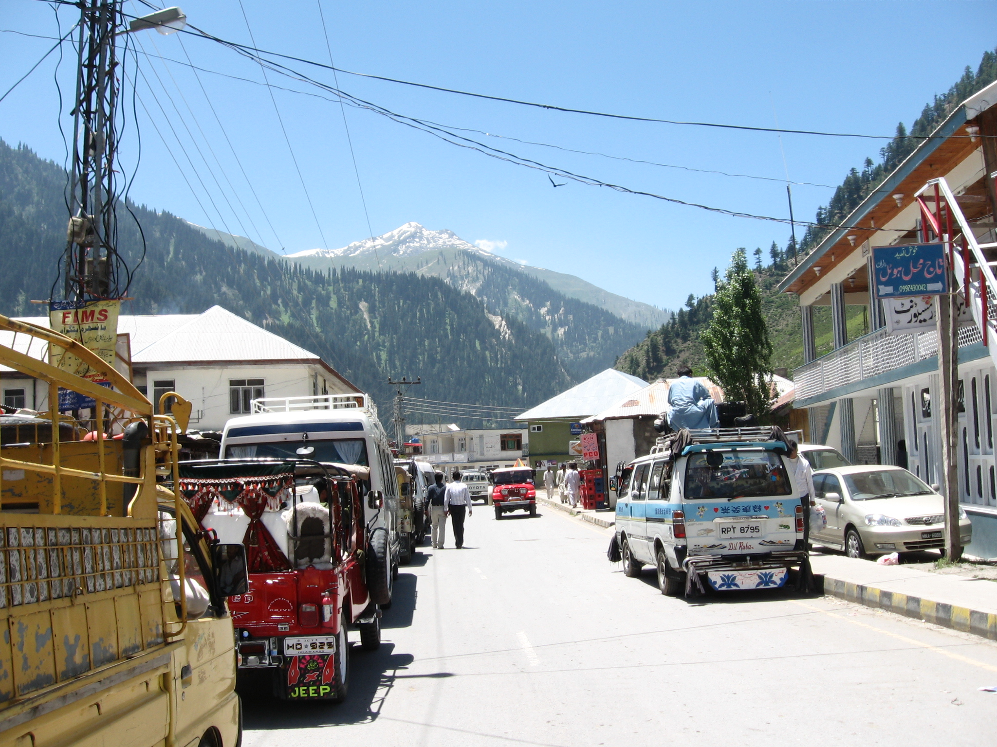 Naran town in Kaghan Valley, Pakistan